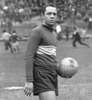 Brazilian footballer Paulo Valentim durung his time as a Boca Juniors player (1960-1965)